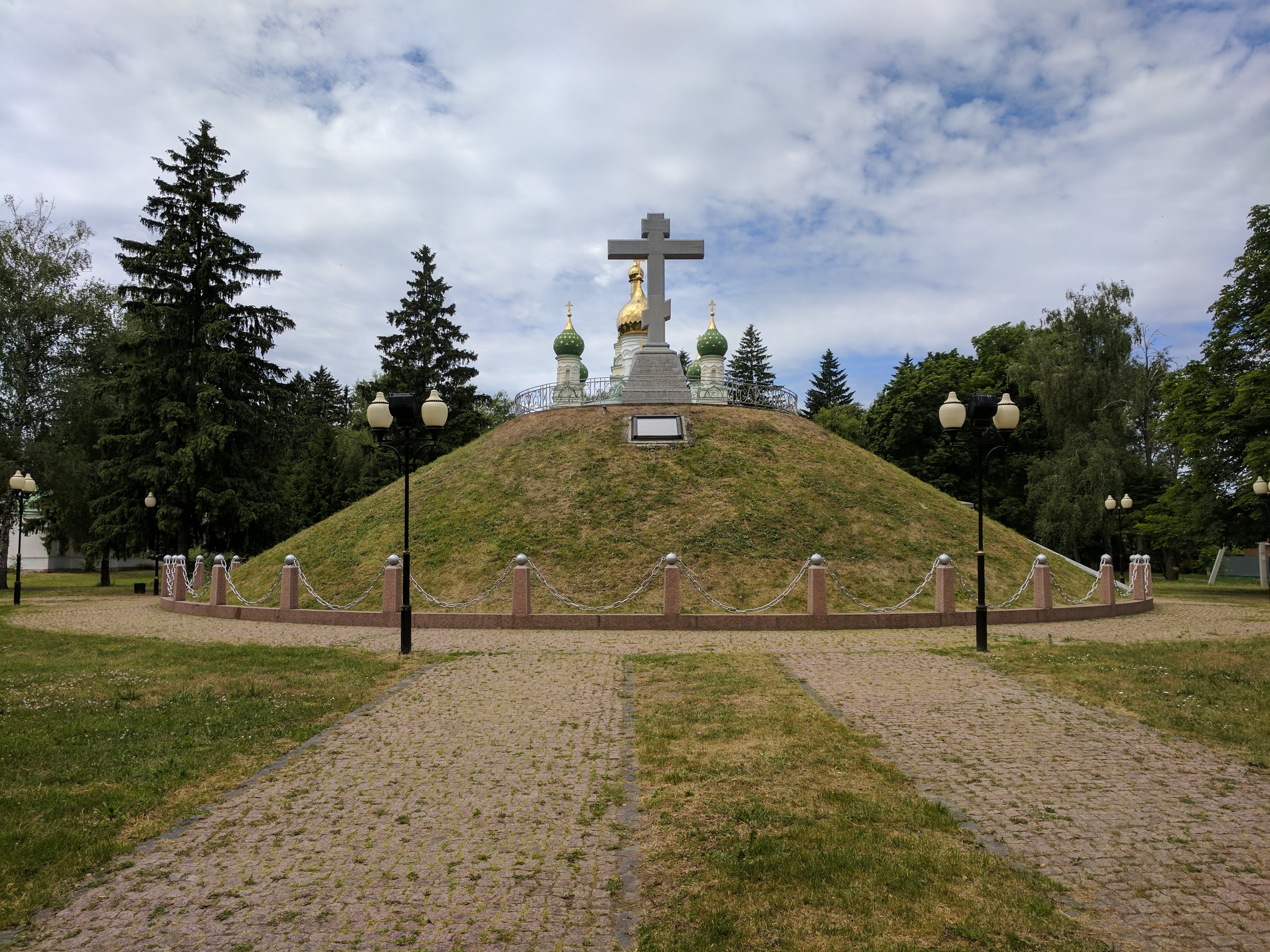 A mass burian of Russian soldiers killed in the Battle of Poltava